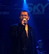 Richard Müller performing live at KOKO club in London, UK.